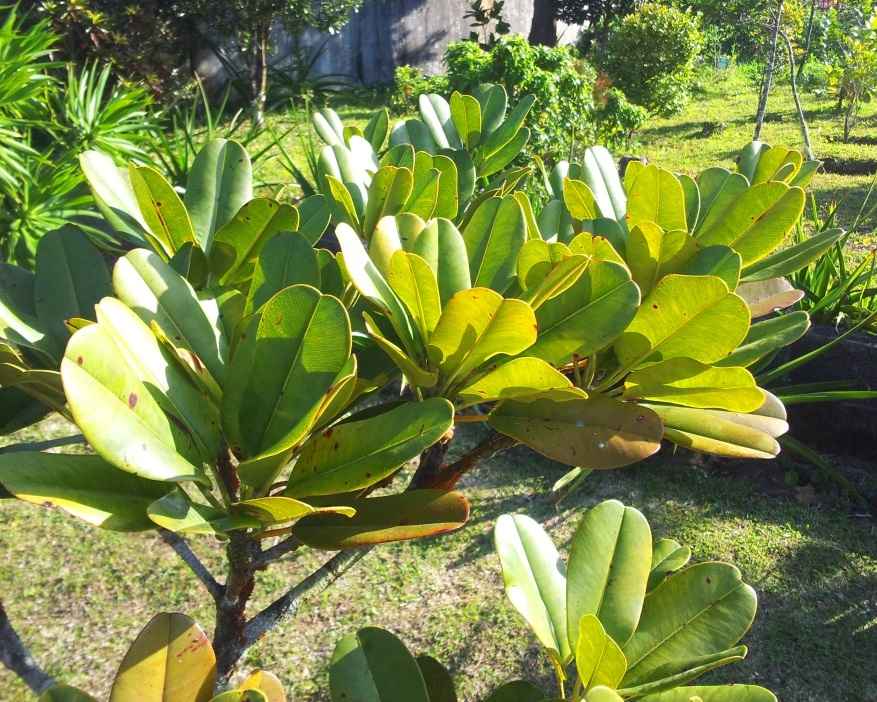 Labourdonnaisia calophylloides - Bois de Natte a Petites Feuilles - MonVert Arboretum